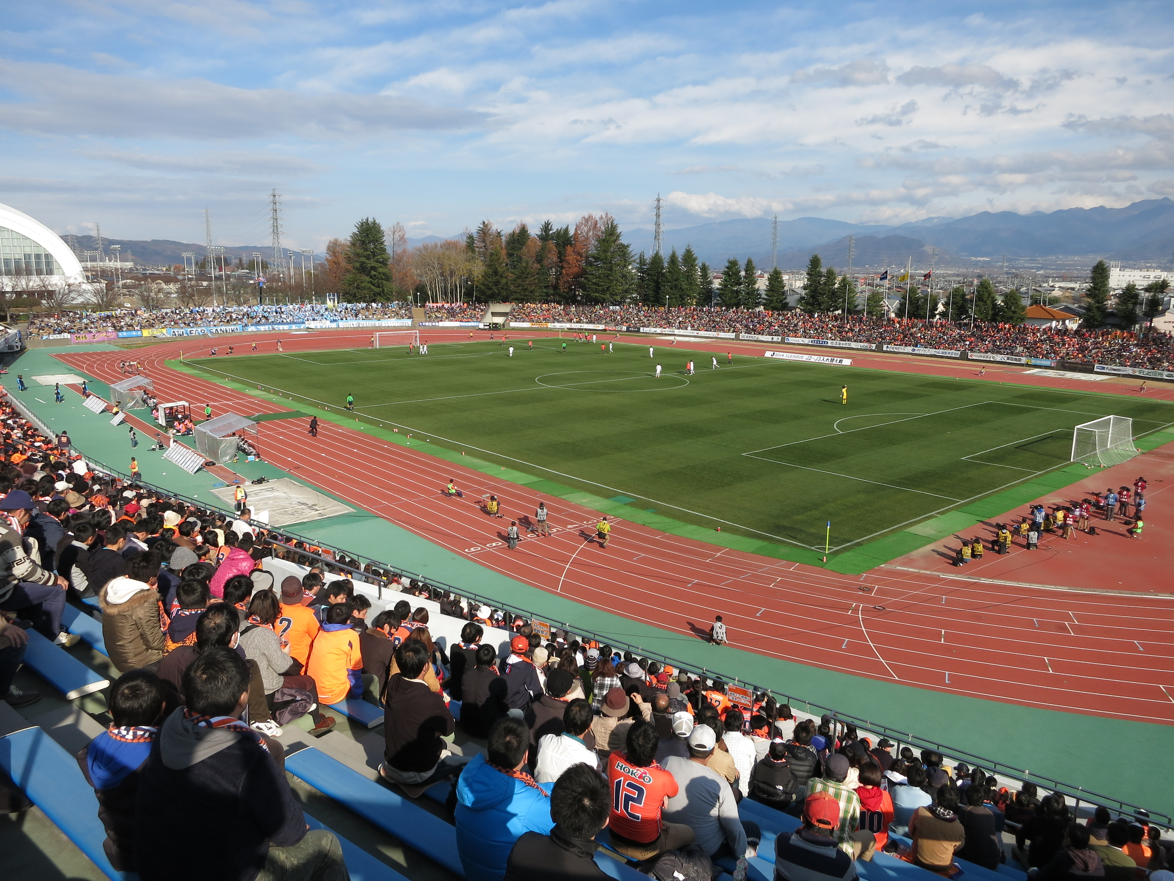 Nagano-City athletics stadium